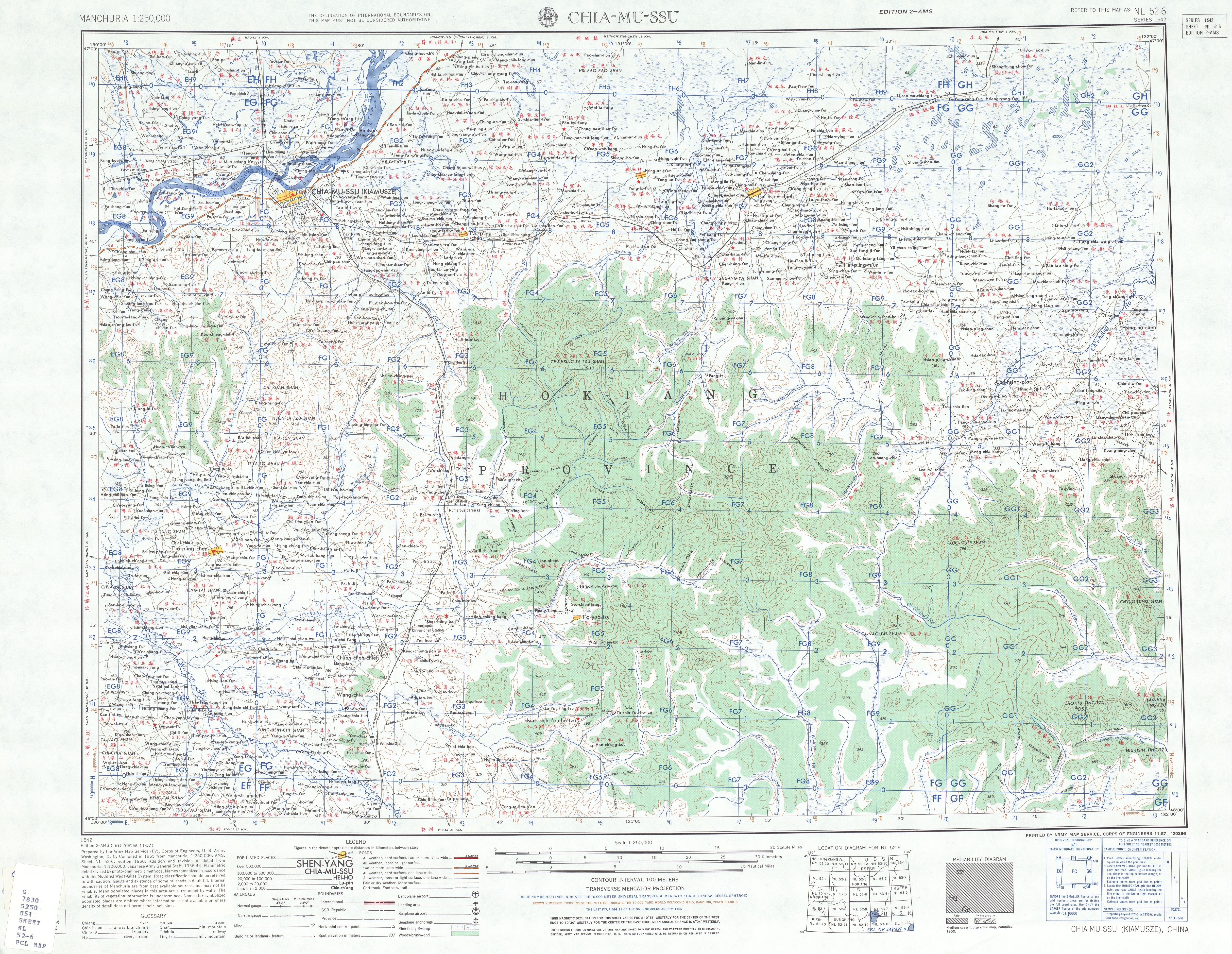 Manchuria AMS Topographic Maps